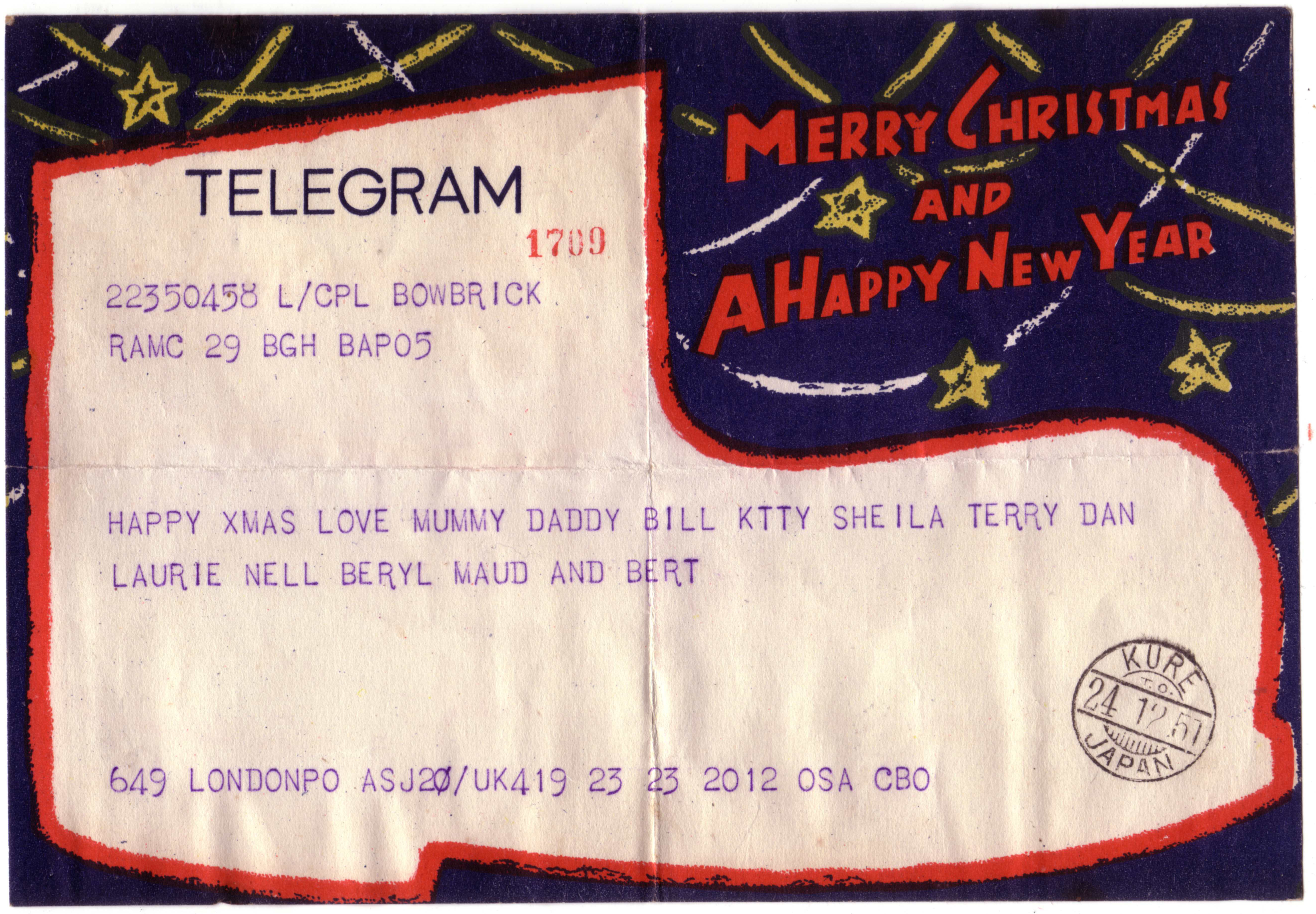 Telegram sent to my dad (22350458 L/CPL BOWBRICK) while he was doing his national service in Japan in 1951.